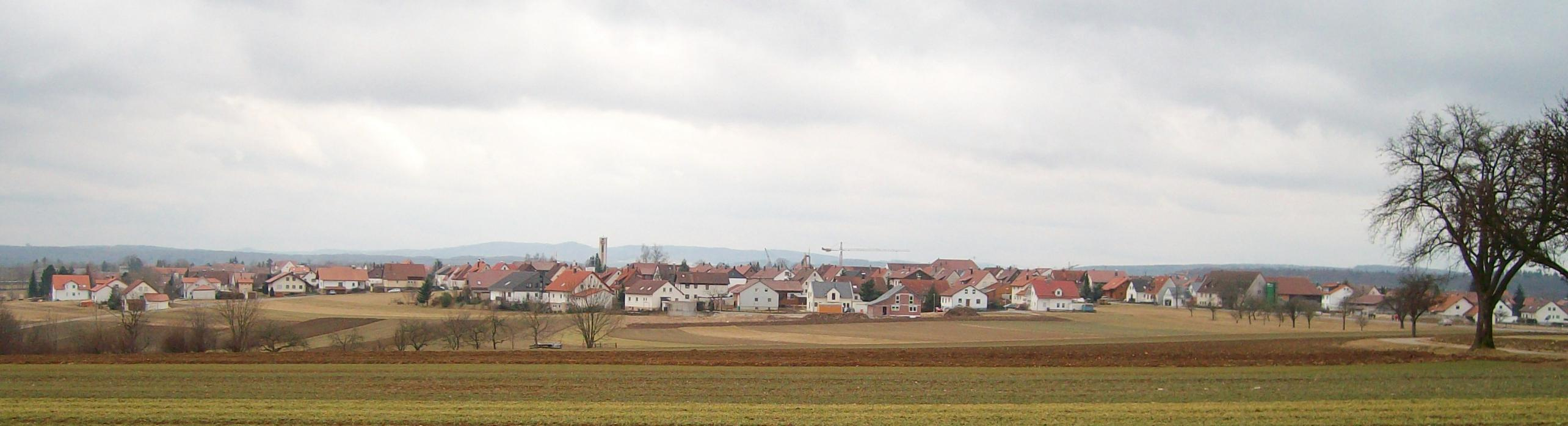 Hülben, village in Germany, seen from the north